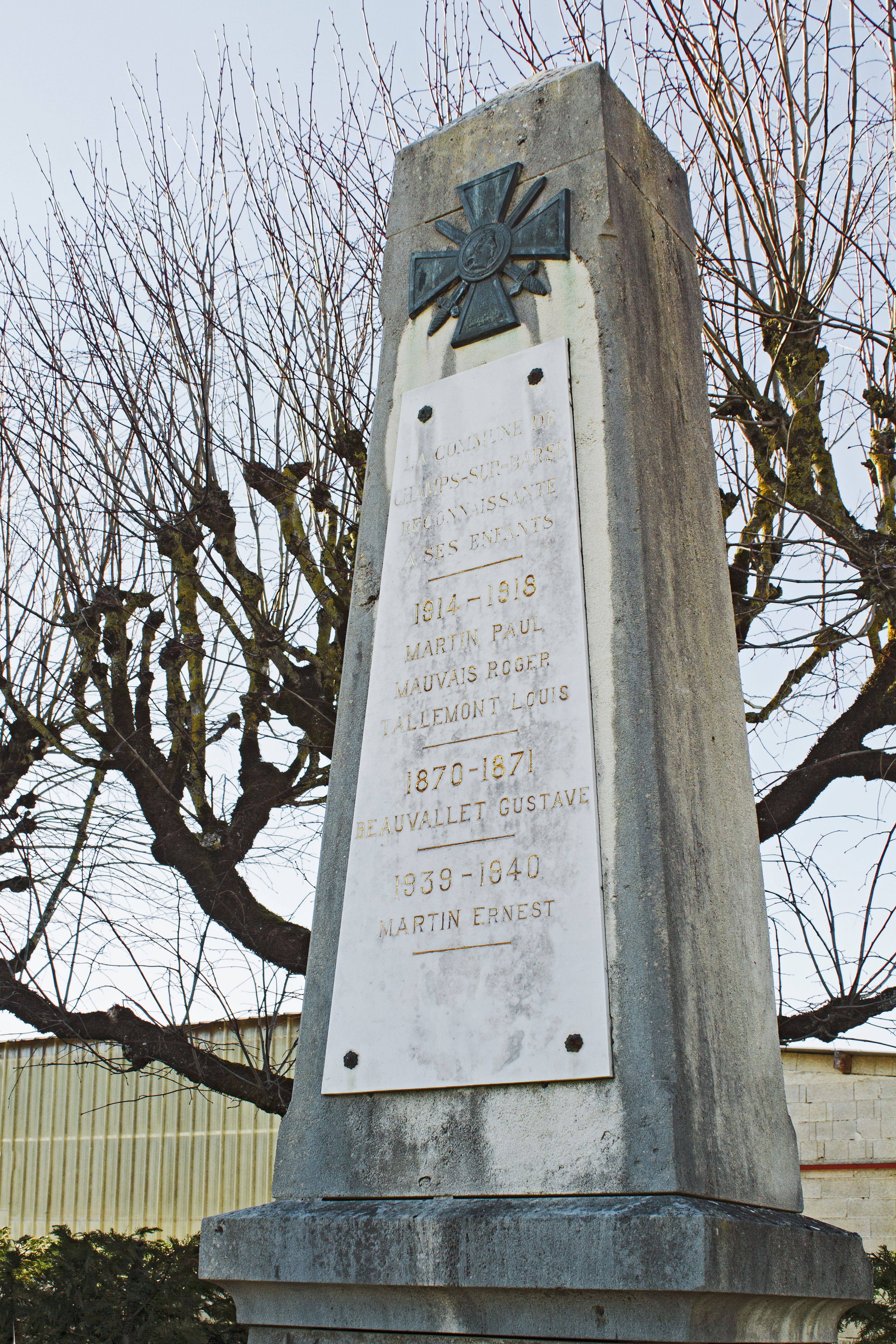 War memorial of Champ-sur-Barse